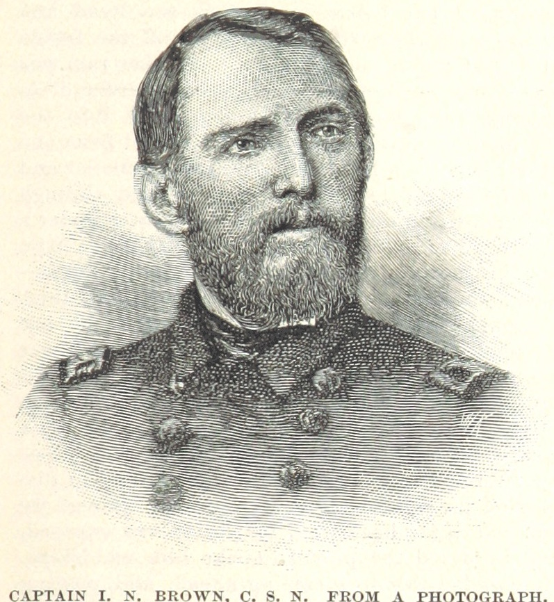 Isaac Brown, the commander of the Confederate ironclad CSS Arkansas, and later the ironclad CSS '"Charleston.